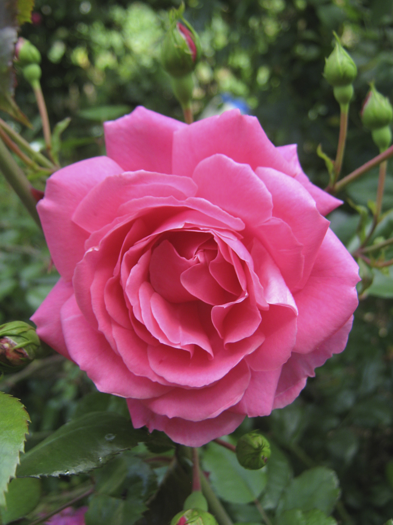 Rose 'Zara Hore-Ruthven', Hybrid Tea by Alister Clark 1932; photographed in the Alister Clark Memorial Rose Garden, Bulla, Victoria